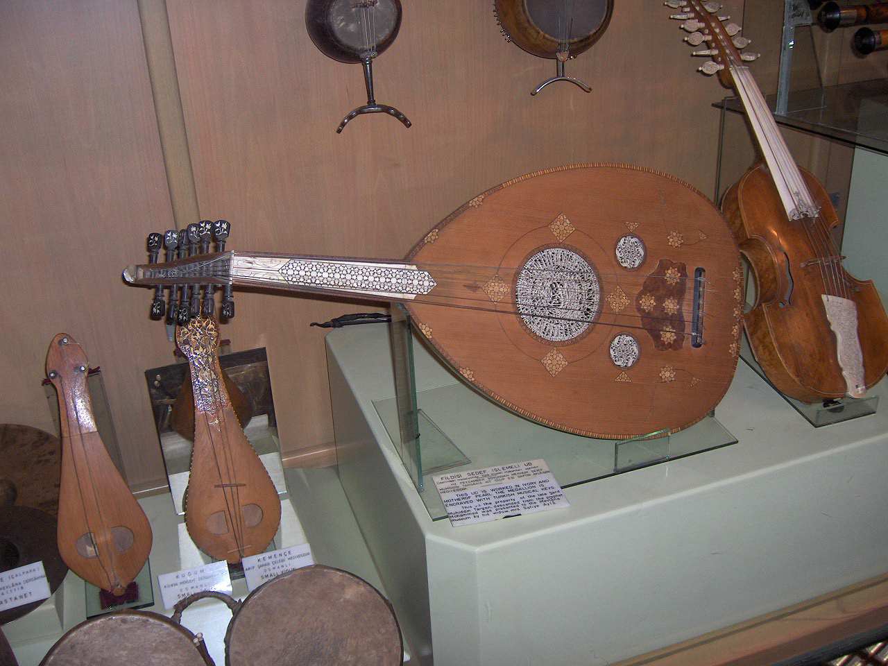 Ud inlaid with ivory and mother-of-pearl; left : two kemençe (a small violin with three strings); Mevlâna mausoleum; Konya, Turkey